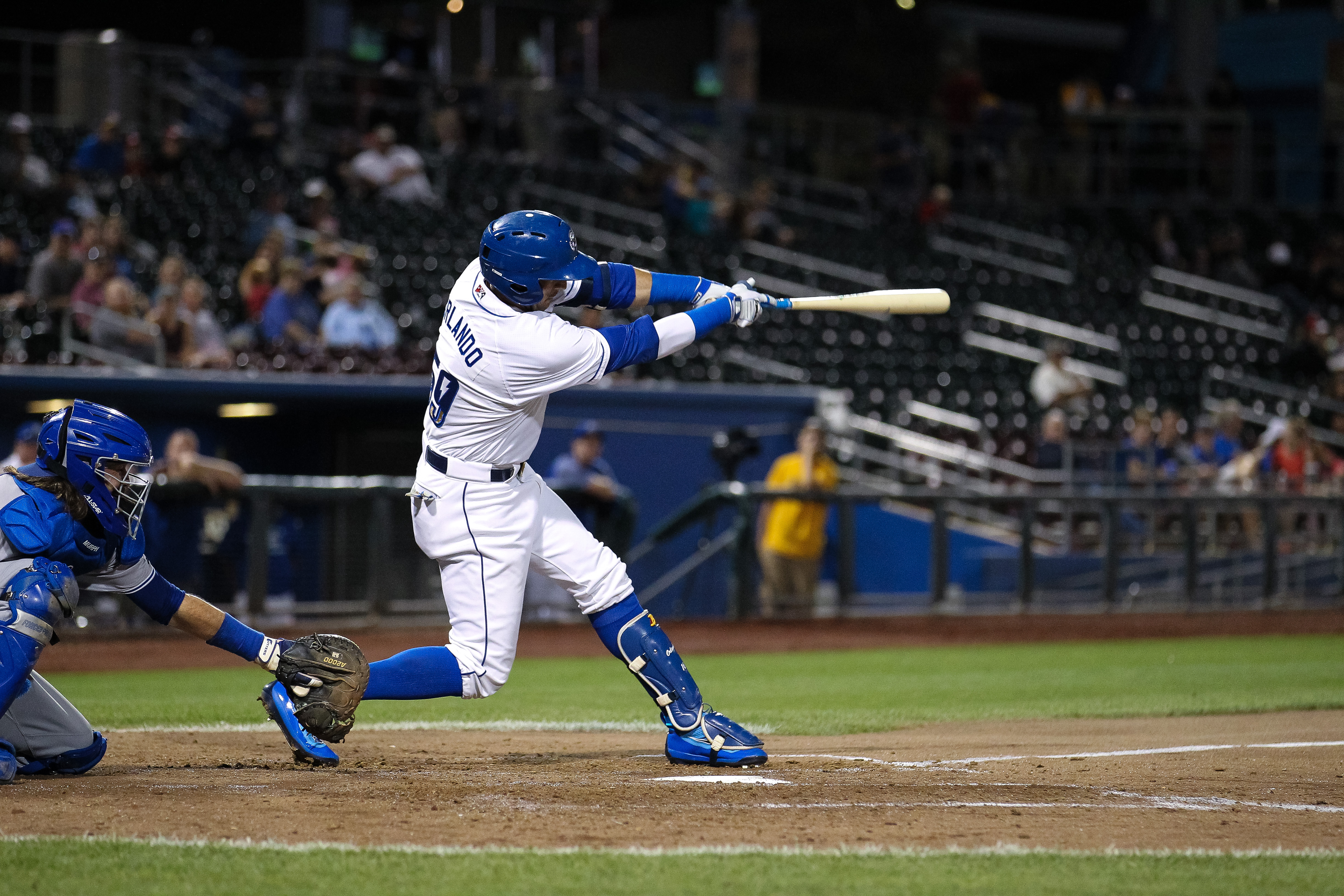 Minda Haas Kuhlmann | 2017 USAGE INSTRUCTIONS: You are welcome to share or publish to your own site or social media account, but you MUST credit me, Minda Haas Kuhlmann, or by my Twitter handle (@minda33) or Instagram (minda.haas).